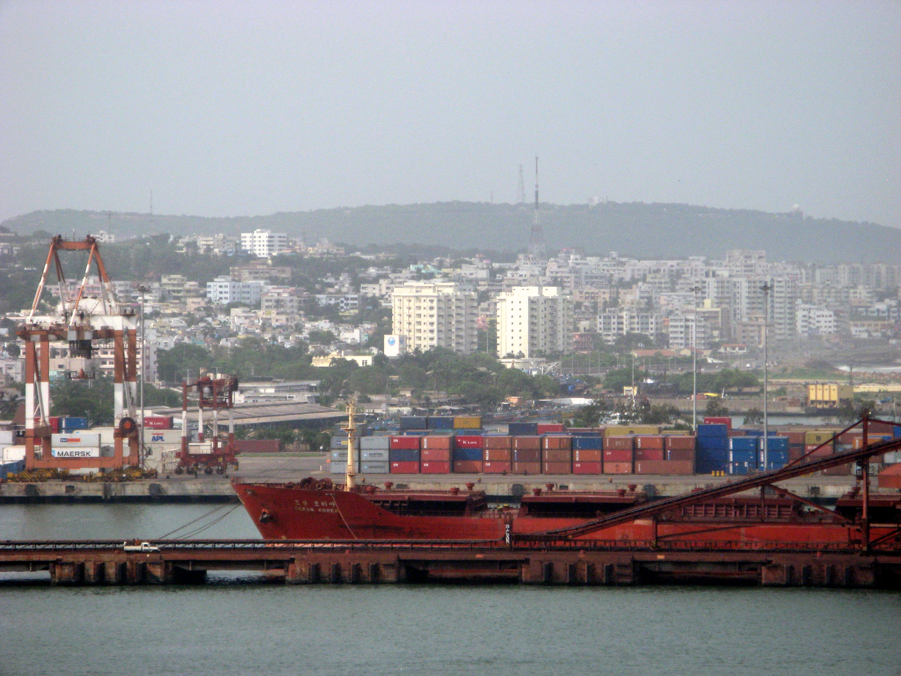 Visakhapatnam view from Vizag seaport